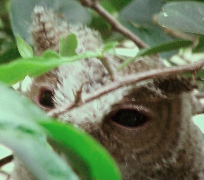 My own photo